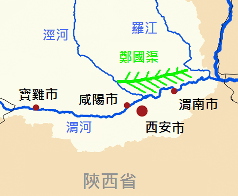 Zhengguo Canal Map in zh.